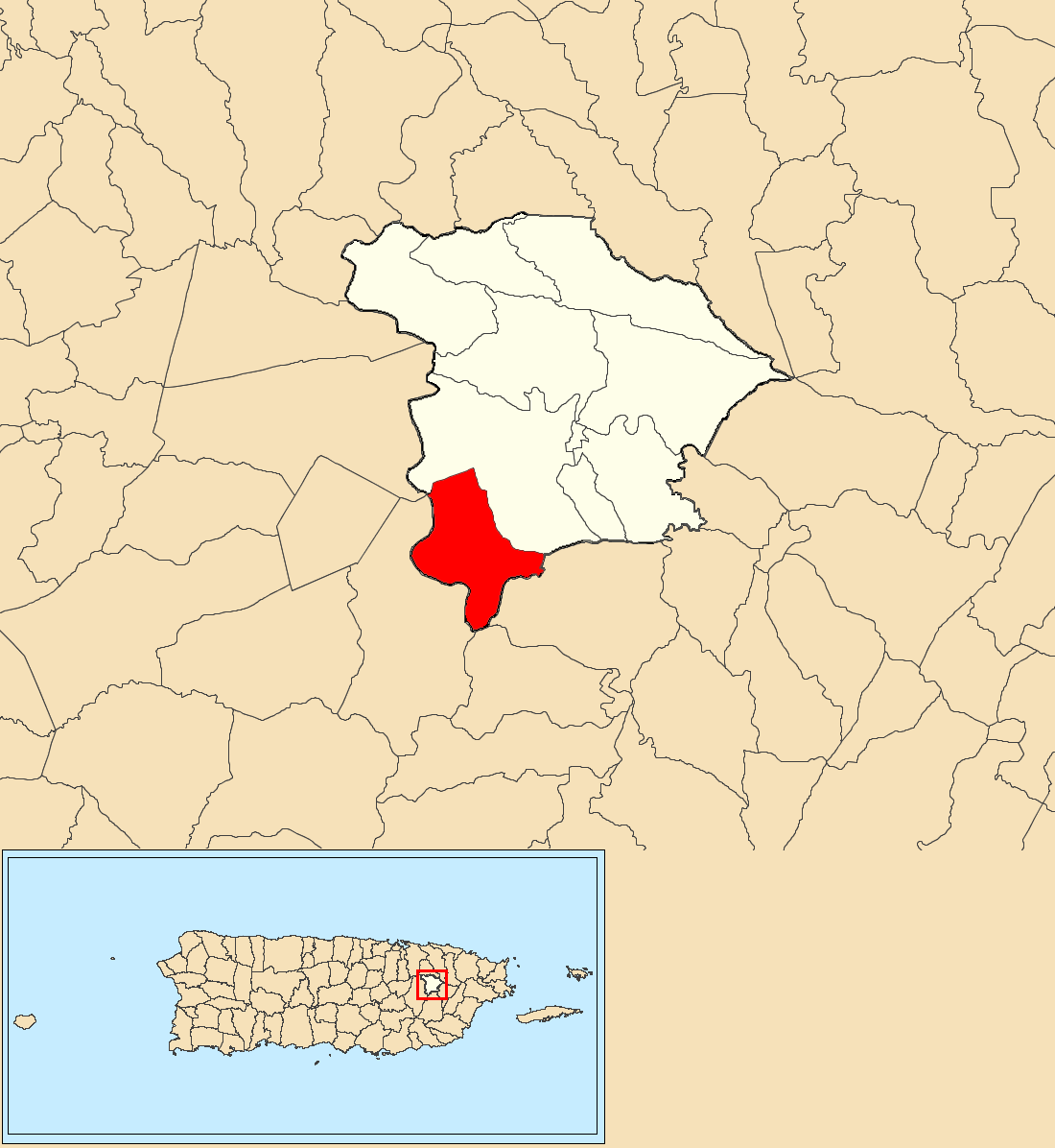 Navarro, Gurabo, Puerto Rico locator map